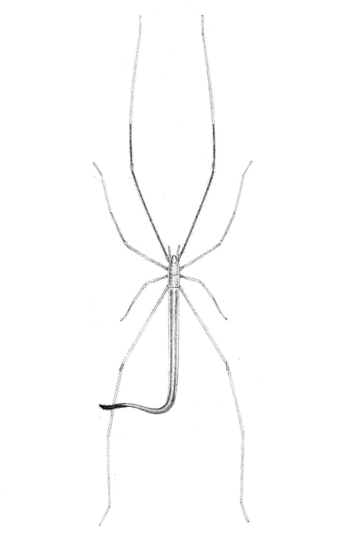 Ariamnes simulans